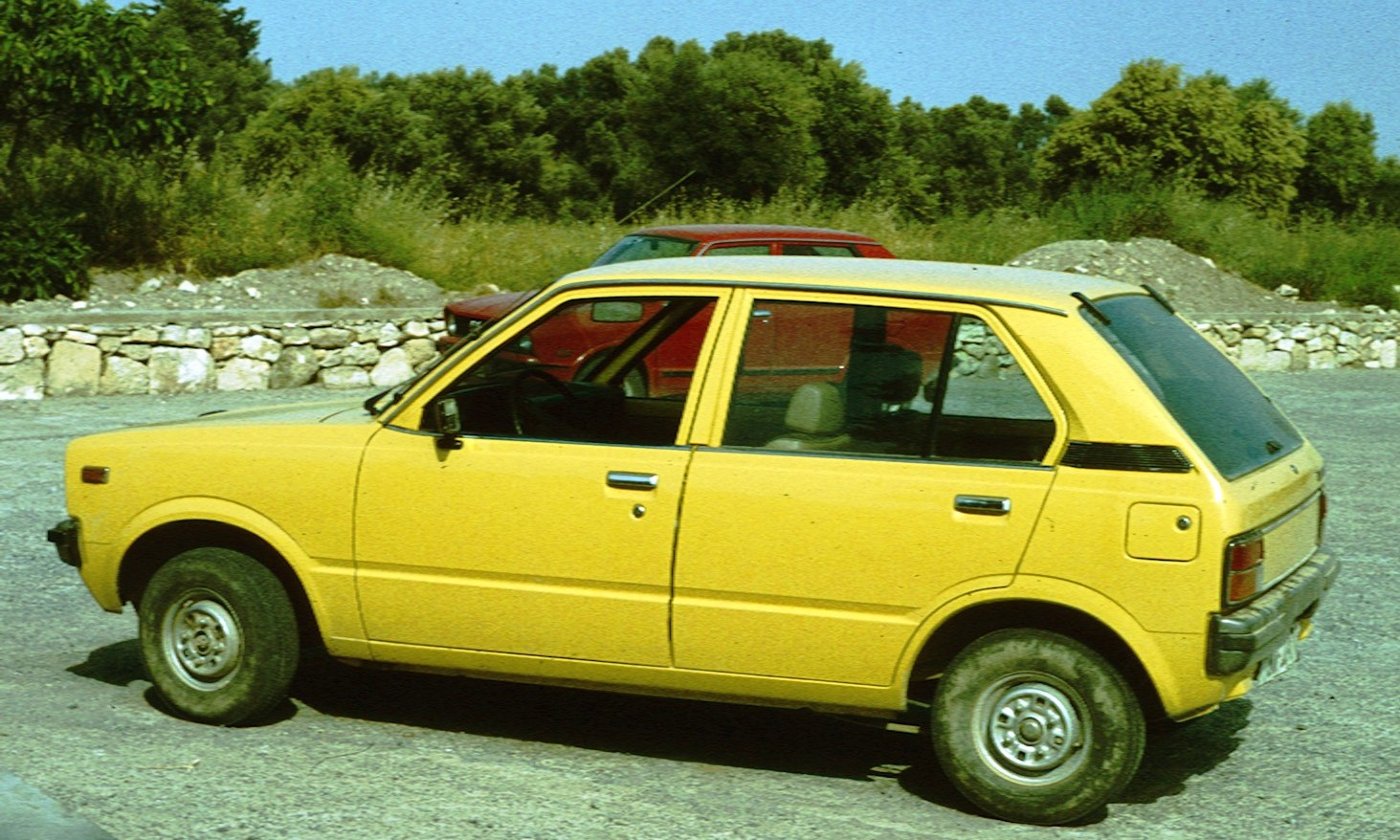 Suzuki Alto First iteration (at least for Europe) 1979 - 1984; in Japan is called Suzuki Fronte.